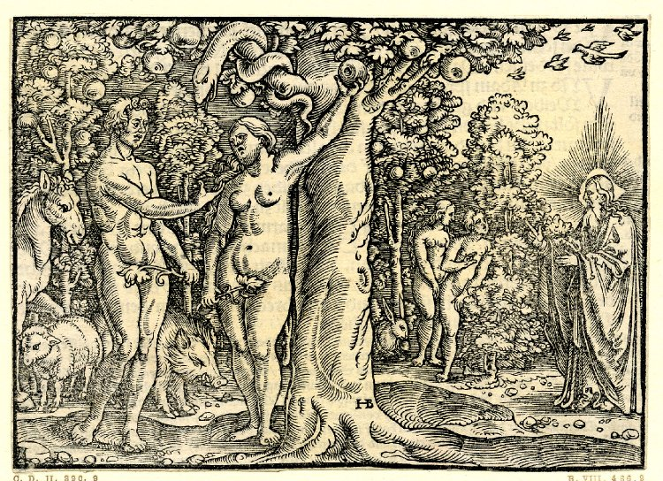 Hans Brosamer of the Fall of Man from the 1550 Wittenberg Bible of Martin Luther